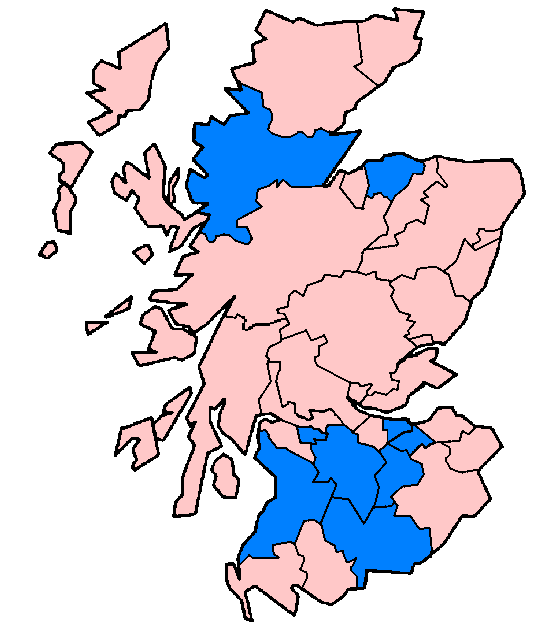 This image indicates in blue the Scottish non-administrative counties (1997 definition) affected by flooding on/by July 24th 2007. That's Ayrshire, Dumfries, Edinburgh, Glasgow, Lanarkshire, Midlothian, Moray, Ross&Cromarty and Tweedale. Every effort has been made to reduce error, and I apologise for any errors/omissions. Some areas with only minor damage have been omitted. To forestall criticism, citations for each and every one of these areas can be found on under "Affected areas in Scotland".